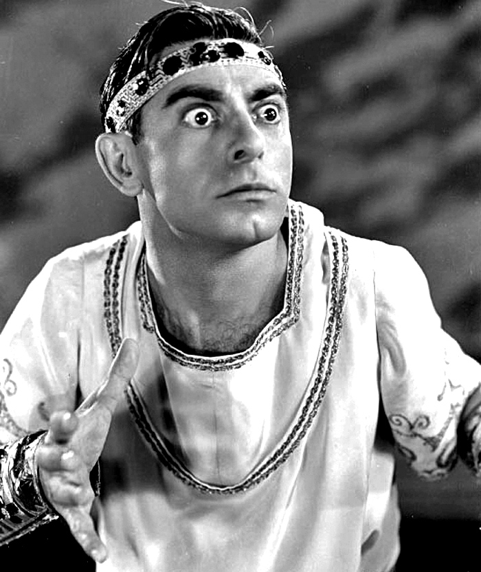 Publicity photo of Eddie Cantor for comedy film Roman Scandals (1933).